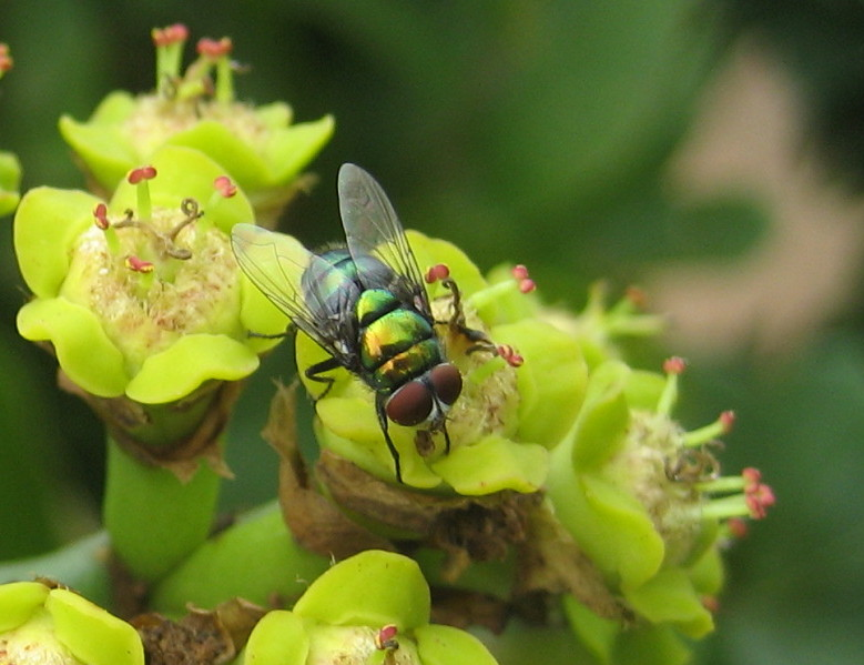 A fly (probably Lucilia sericata, family Calliphoridae, Diptera) feeding nectar from a flower of Euphorbia ingens in Chimoio, Mozambique.